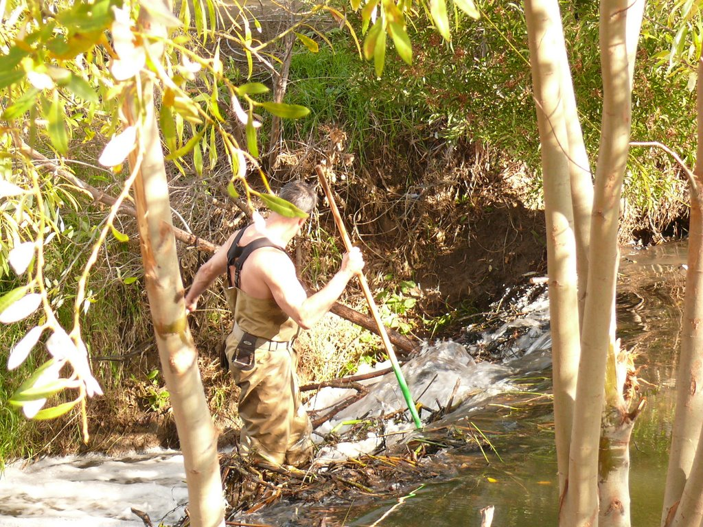 Skip Lisle incising beaver dam to install flow device to control pond height on Alhambra Creek, Martinez, CA